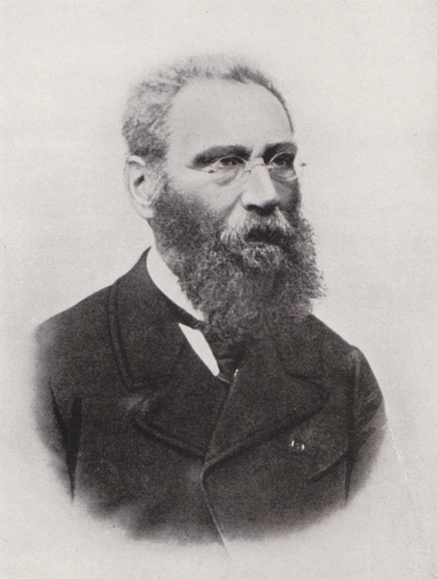 Karel Ferdinand Bellmann (1820-1893) was a Czech pressman Česky: Karel Ferdinand Bellmann (1820-1893) byl český tiskař